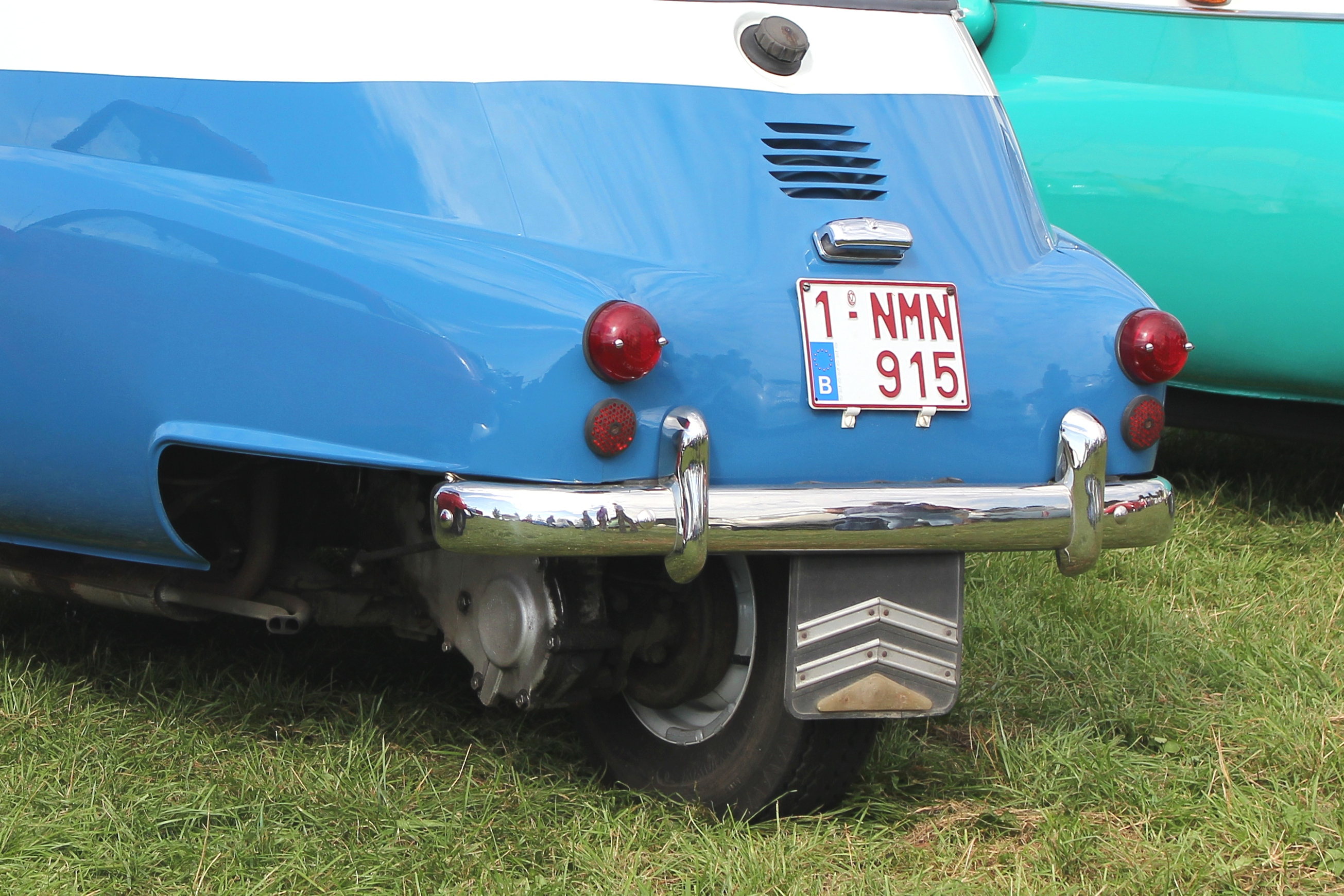 Three-wheeled BMW ISetta (number changed)